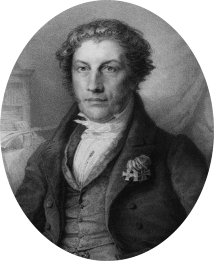 Friedrich Leberecht Trüstedt (1791-1855), German physician